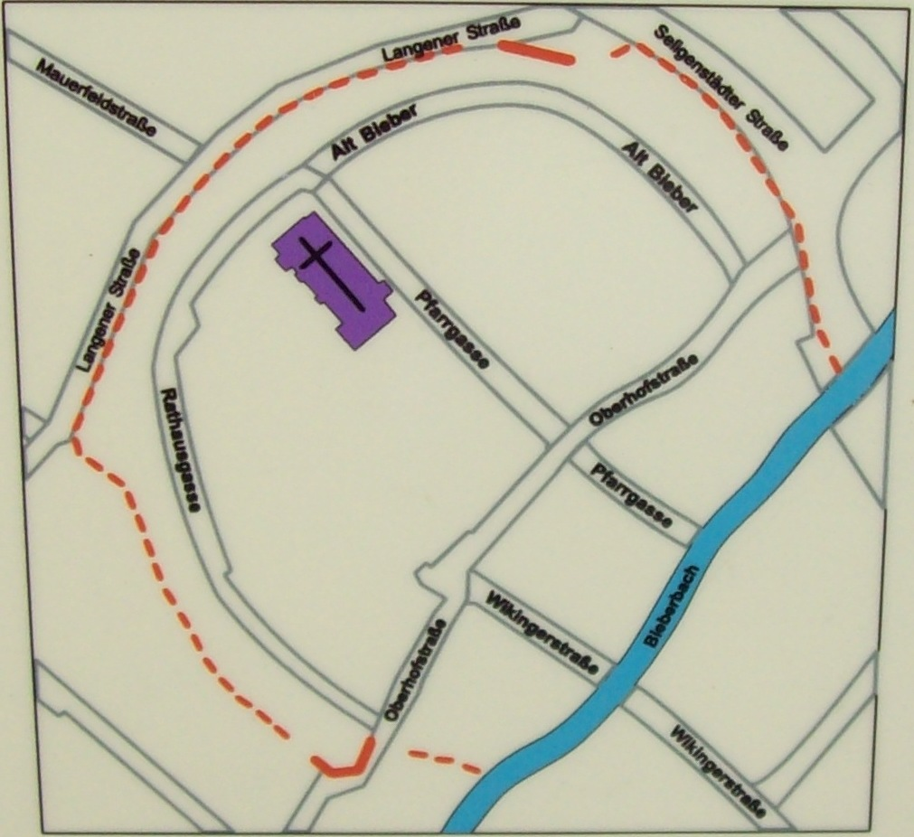 old center of Bieber